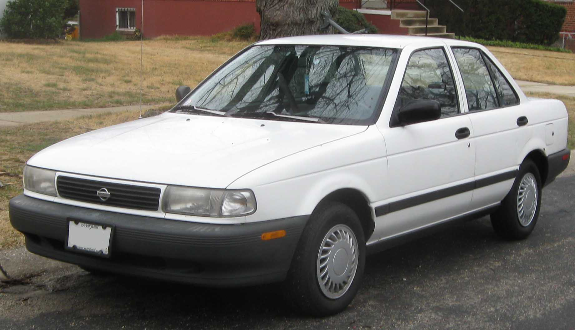 1993-1994 Nissan Sentra photographed in Rockville, Maryland, USA.